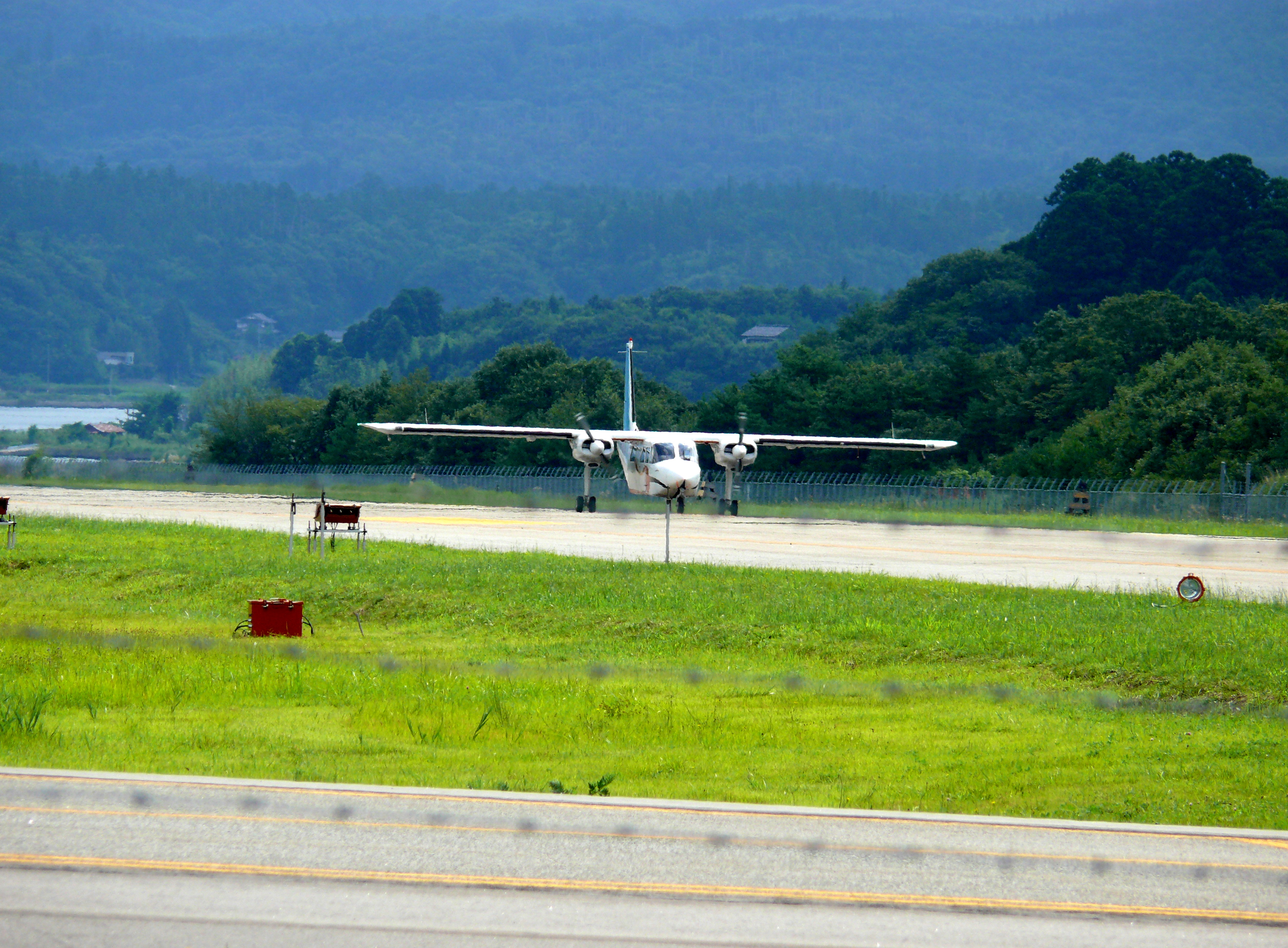 Britain Norman islander of Kyokushin Air that arrived at Sado airport.(Japan,).